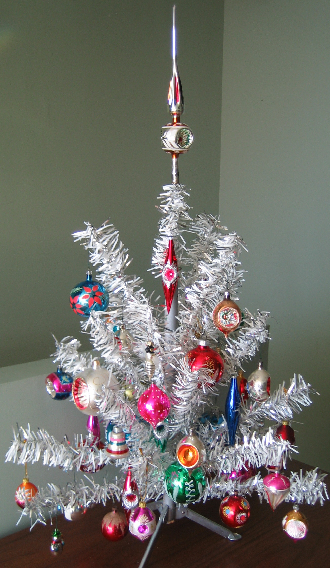 A small, tabletop aluminum Christmas tree.